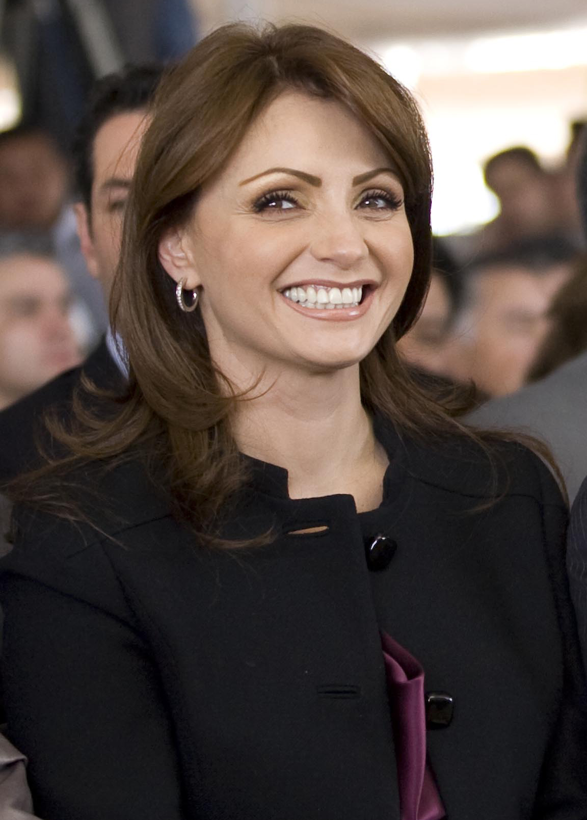 Angélica Rivera in 2011.